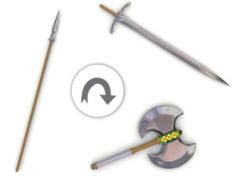 The weapon triangle in video games. The axe is stronger that spear, the spear is stronger that sword and the sword is stronger that axe.